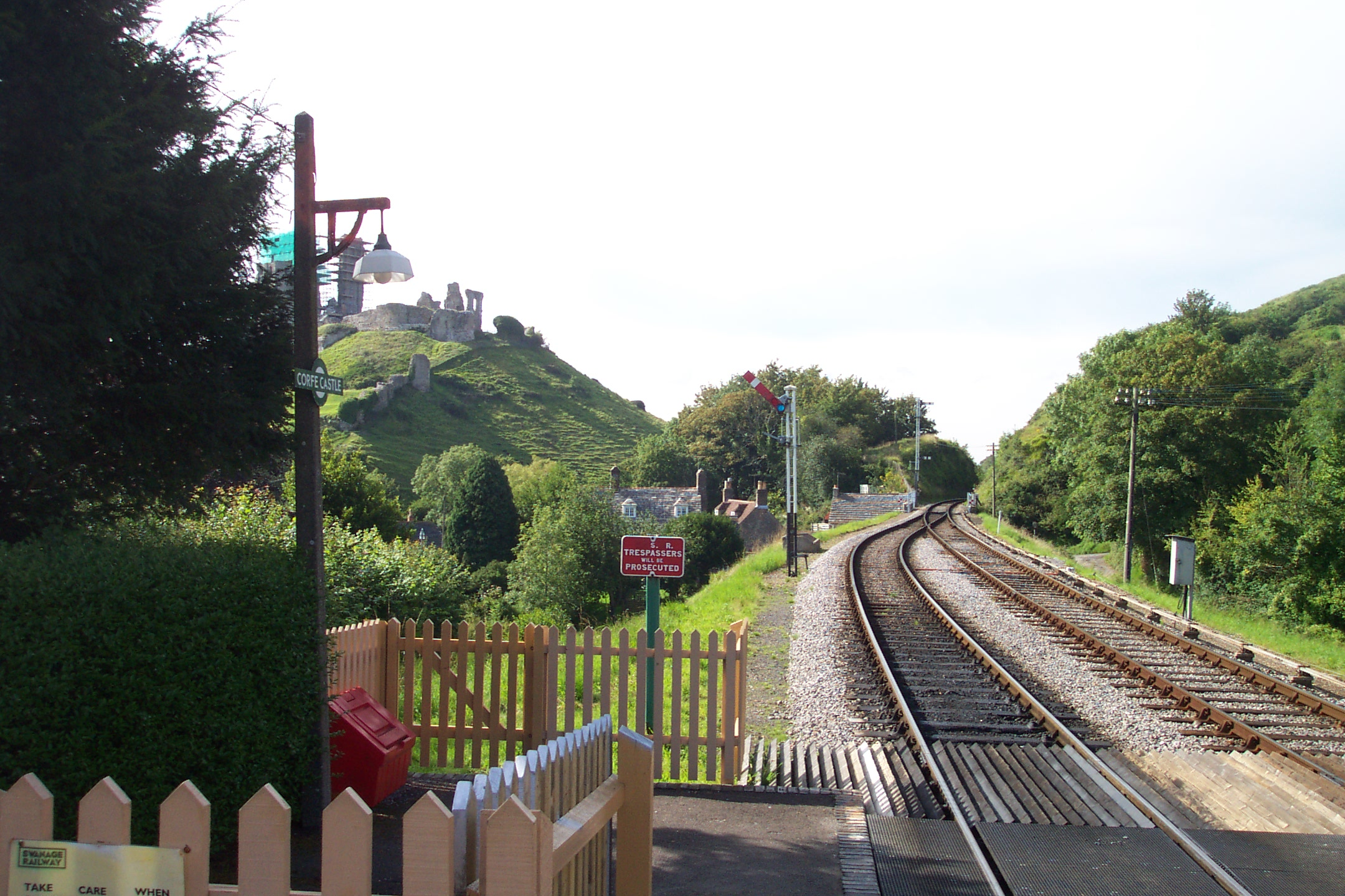 The railway line to the north of Corfe Castle railway station, showing the gap the line must pass through between Castle Hill to the left and East Hill to the right. For more information see the Wikipedia article Corfe Castle railway station.